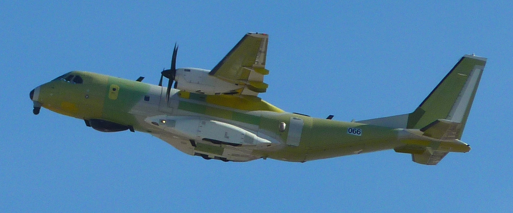 Chilean Navy CASA C-295 Persuader in primer during a test flight.